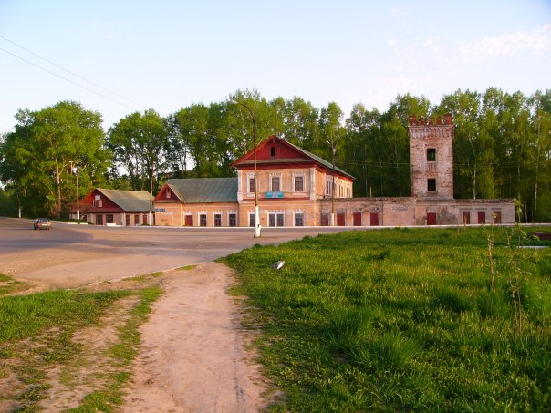 Foto